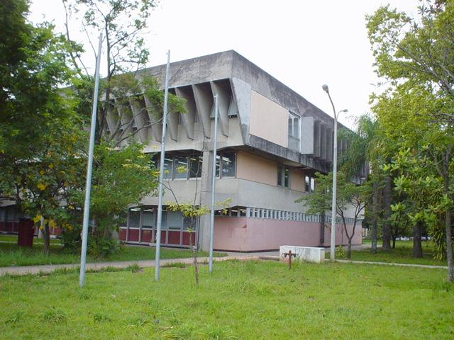 Math and Estatistic Institute - Sao Paulo University - Brazil